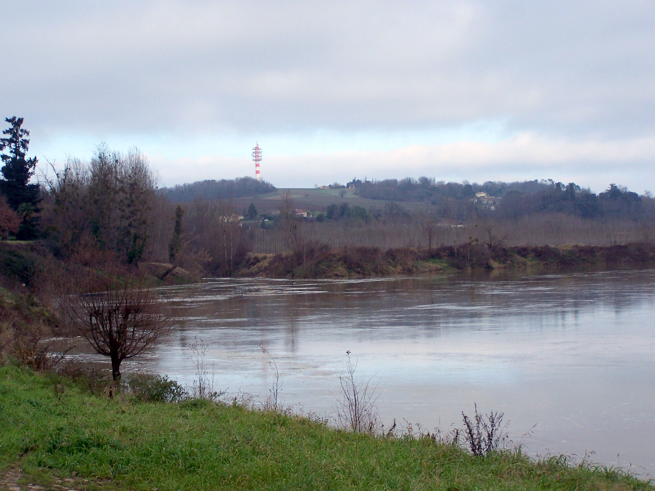 Confluence of Drot and Garonne river in Caudrot (Gironde, France)